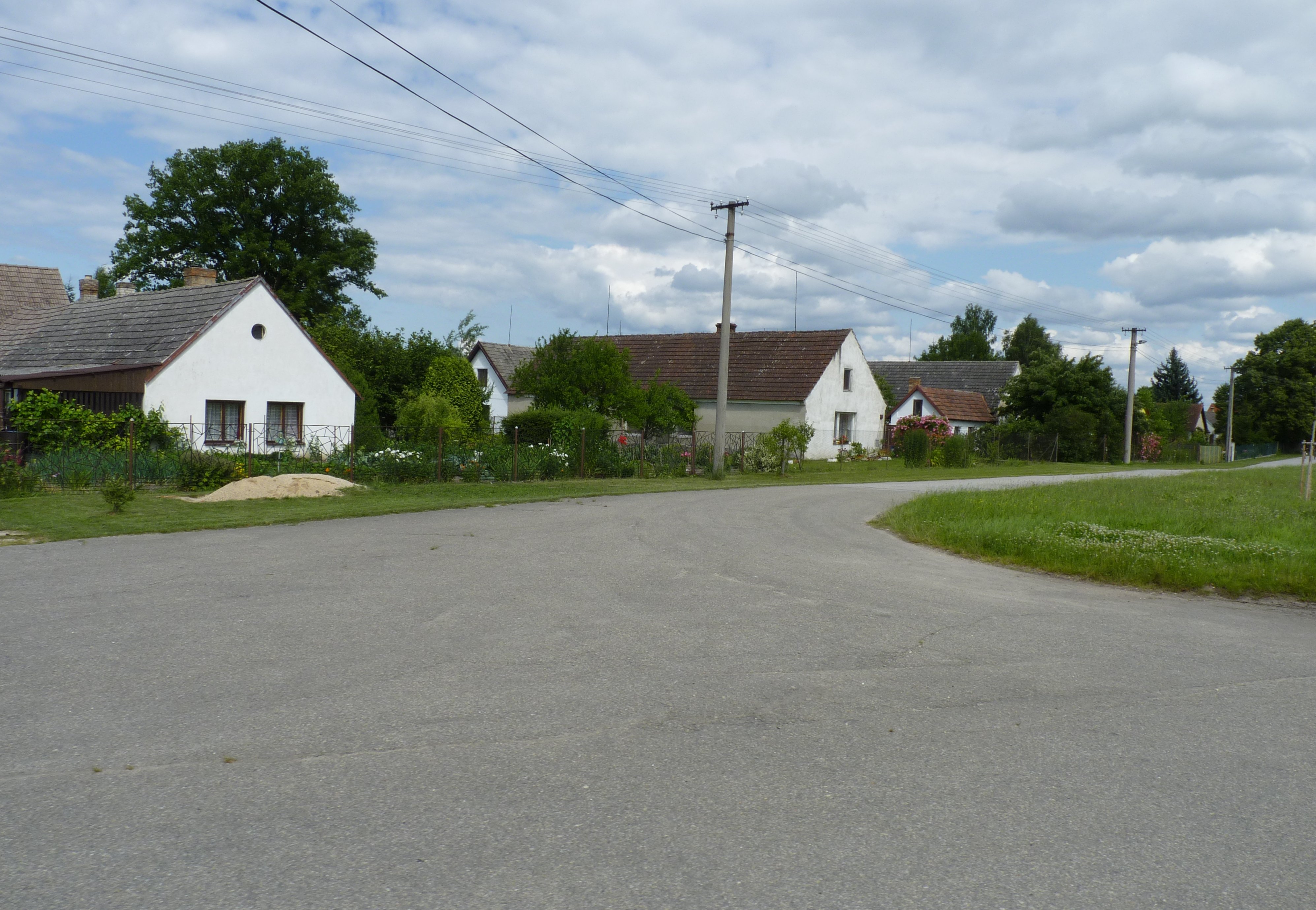 Nová Hlína. Jindřichův Hradec District, South Bohemian Region, Czech Republic